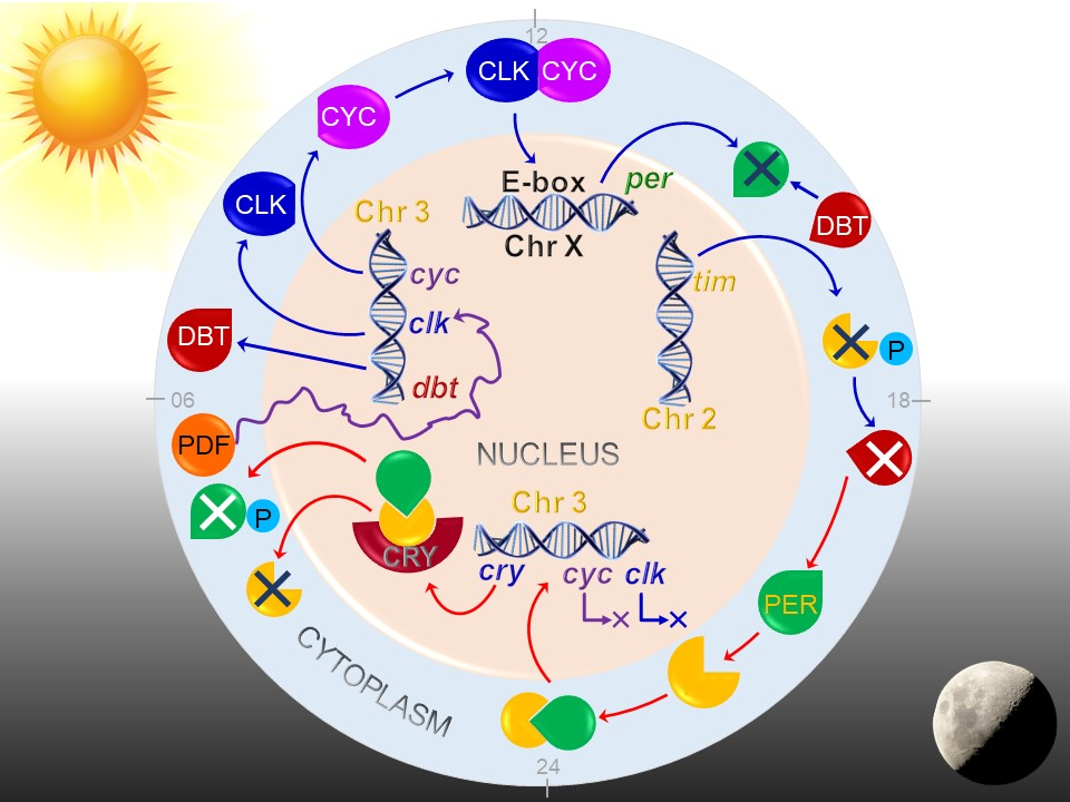 Molecular interactions of clock genes and proteins during circadian rhythm of Drosophila. Created using PowerPoint 2016.